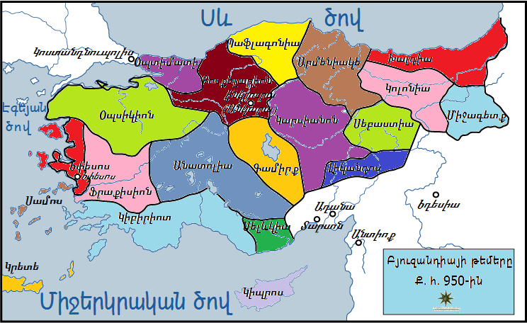 The Byzantine Empire Themata, 950, from the US Military Academy History archives (copyright US government?).